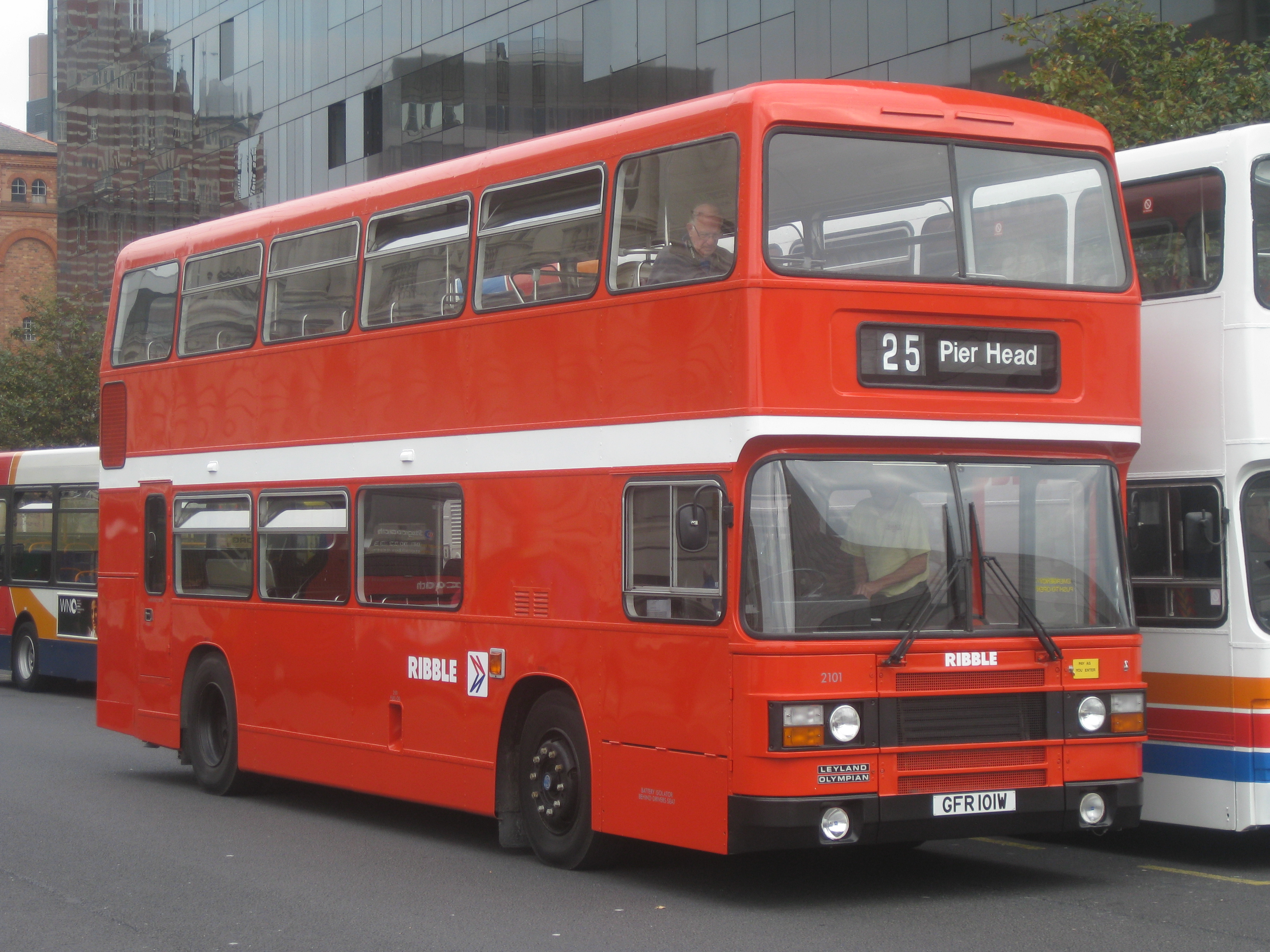 GFR101W appeared at the Liverpool running day enabling me once again to enjoy a ride on this, the first production Leyland Olympian (chassis ON1) in the same year as enjoying a ride on the last production Leyland Olympian (chassis ON21080) which is now L888SBS in preservation in the UK after a career in Singapore. I'd previously been on both in the same year but now a 6,500 mile flight isn't essential to achieve this!